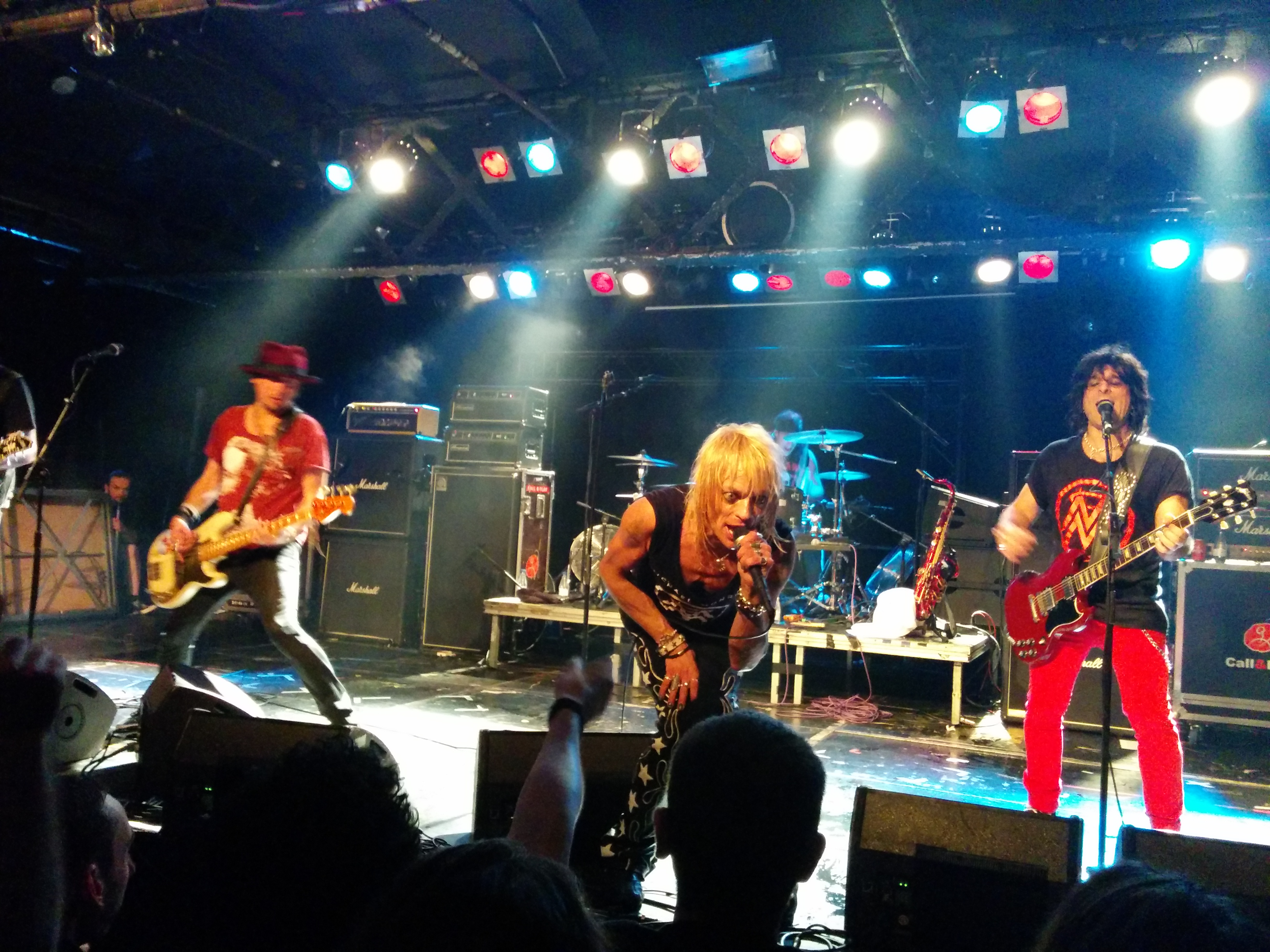 Michael Monroe Band live in Barcelona at Sala Razzmatazz 2, 11 May 2014